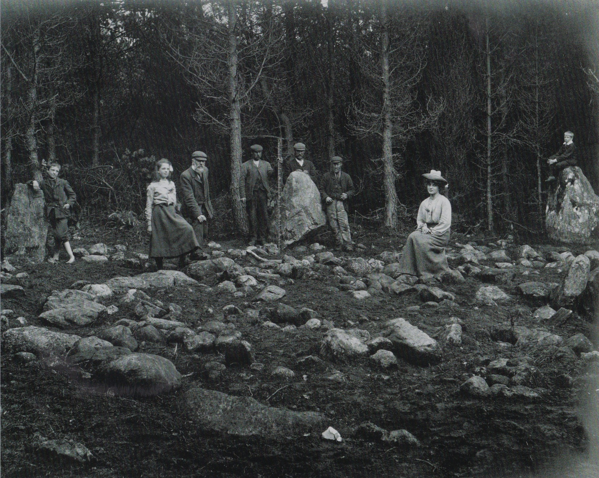 Archaeologist Frederick Coles (1854-1929) and his family at Nine Stanes stone circle, 17 September 1904 photographed by James Ritchie. From left to right: Cecil Coles (aged 16), Muriel (15), Frederick (with beard), Helen (20, seated), John (12, extreme right). Three workmen in centre. Coles' son Herbert (13) is not present. James Ritchie (Snr) (1850 - 1925) was an archaeologist and school teacher from Edinburgh. He was appointed headmaster of Port Elphinstone Public School, Aberdeenshire, in 1875. Details from a book, Some Antiquities of Aberdeenshire and its Borders (1927), written by his son James Ritchie (Jnr.) (1882 – 1958) was a Scottish naturalist and archaeologist, who was Professor of Natural History at the University of Edinburgh 1936–52 and President of the Royal Society of Edinburgh 1952-1958.[1]